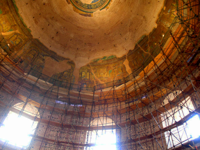 The interior of the Agios Georgios Rotunda, showing remnants of the mosaics in the dome.